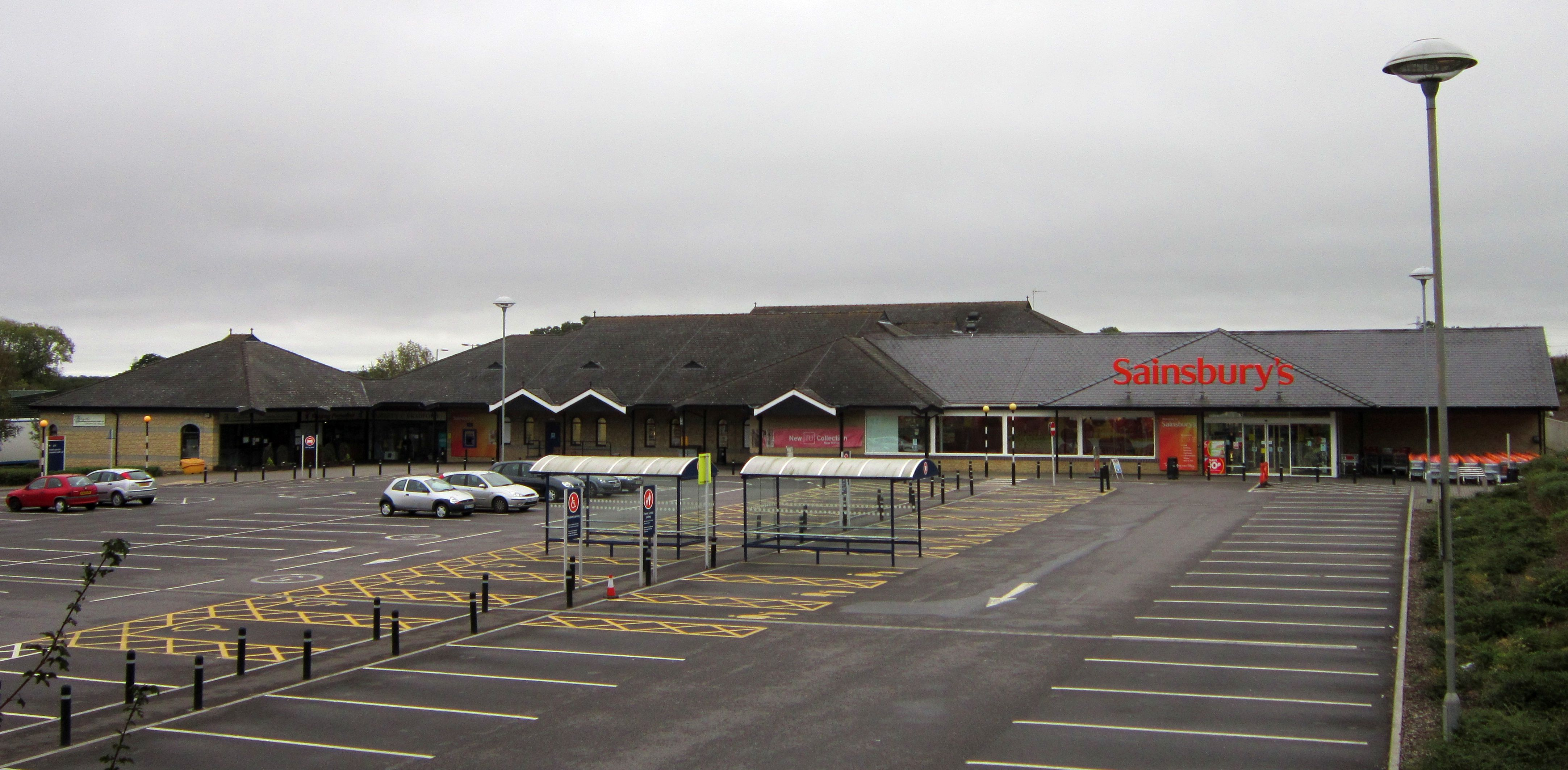 Sainsbury's store in Bradford on Avon